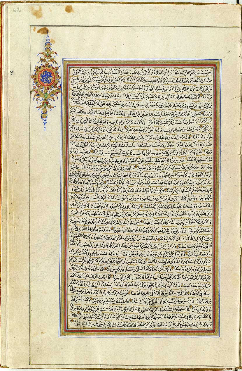 Scan of a Qur'an from the year 1874